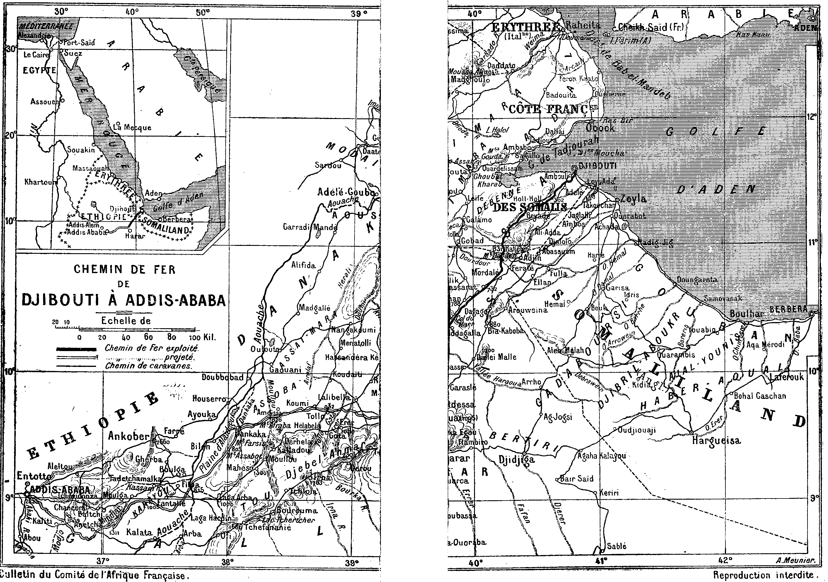 Map of the Djibuti-Adisabeba train line